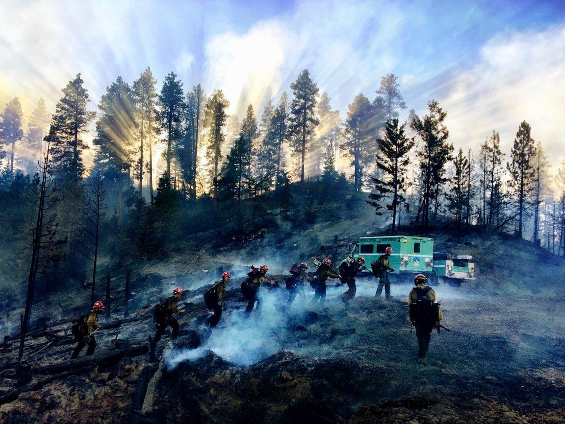 Fire crew at the Little Camas Fire in Washington State. Image dated 2018_07_09-20.59.37